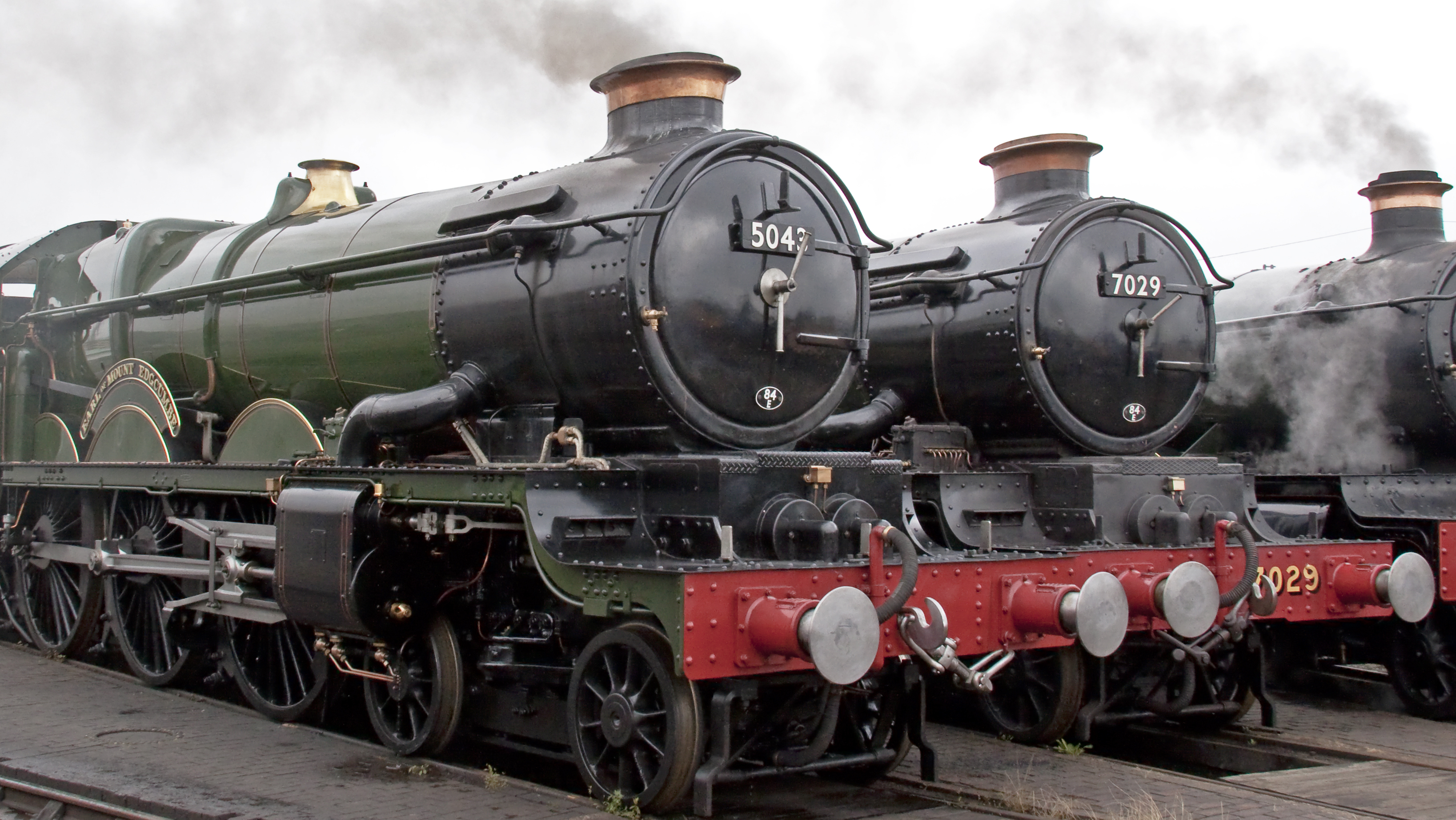 Two Castles